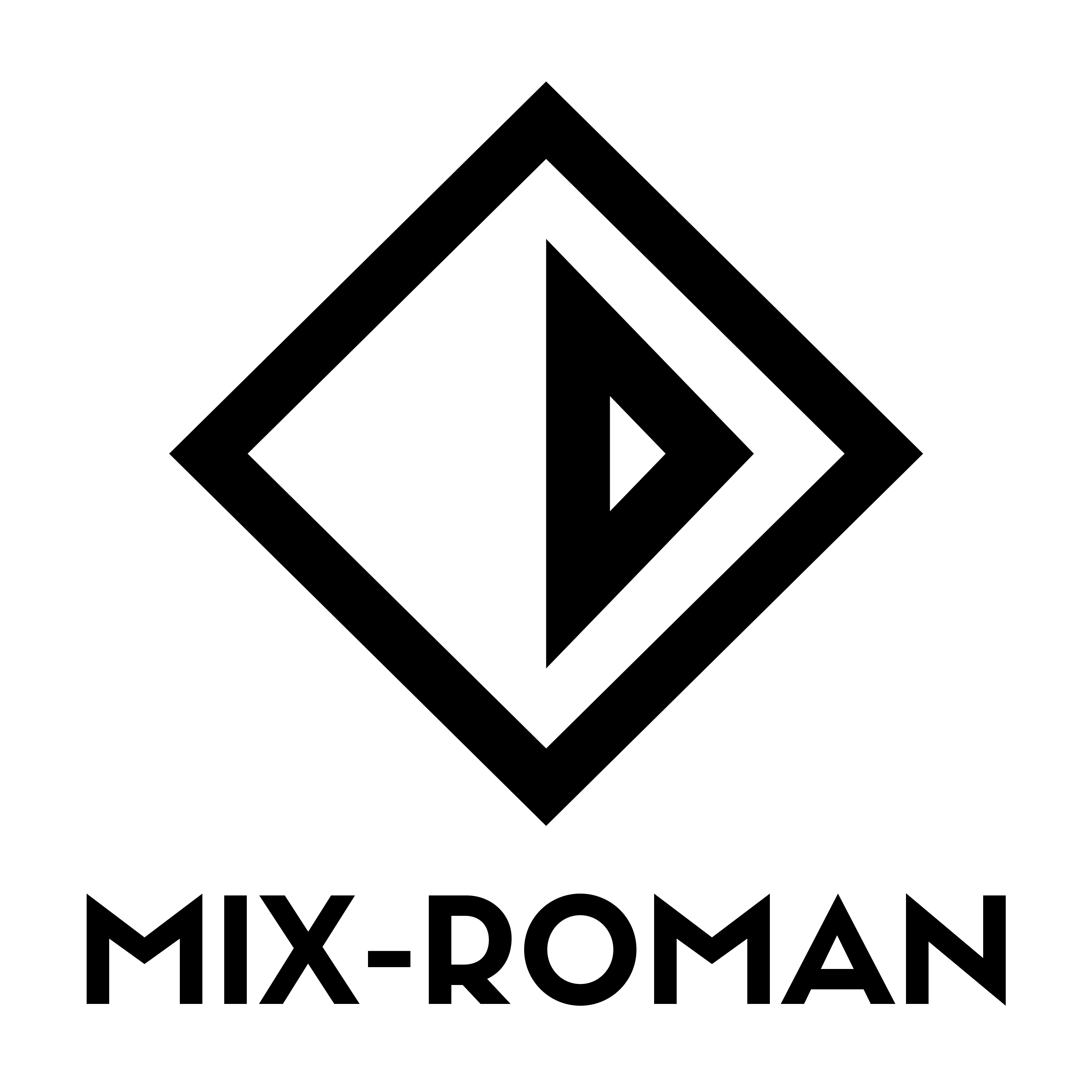 Mix-Roman Current Logo